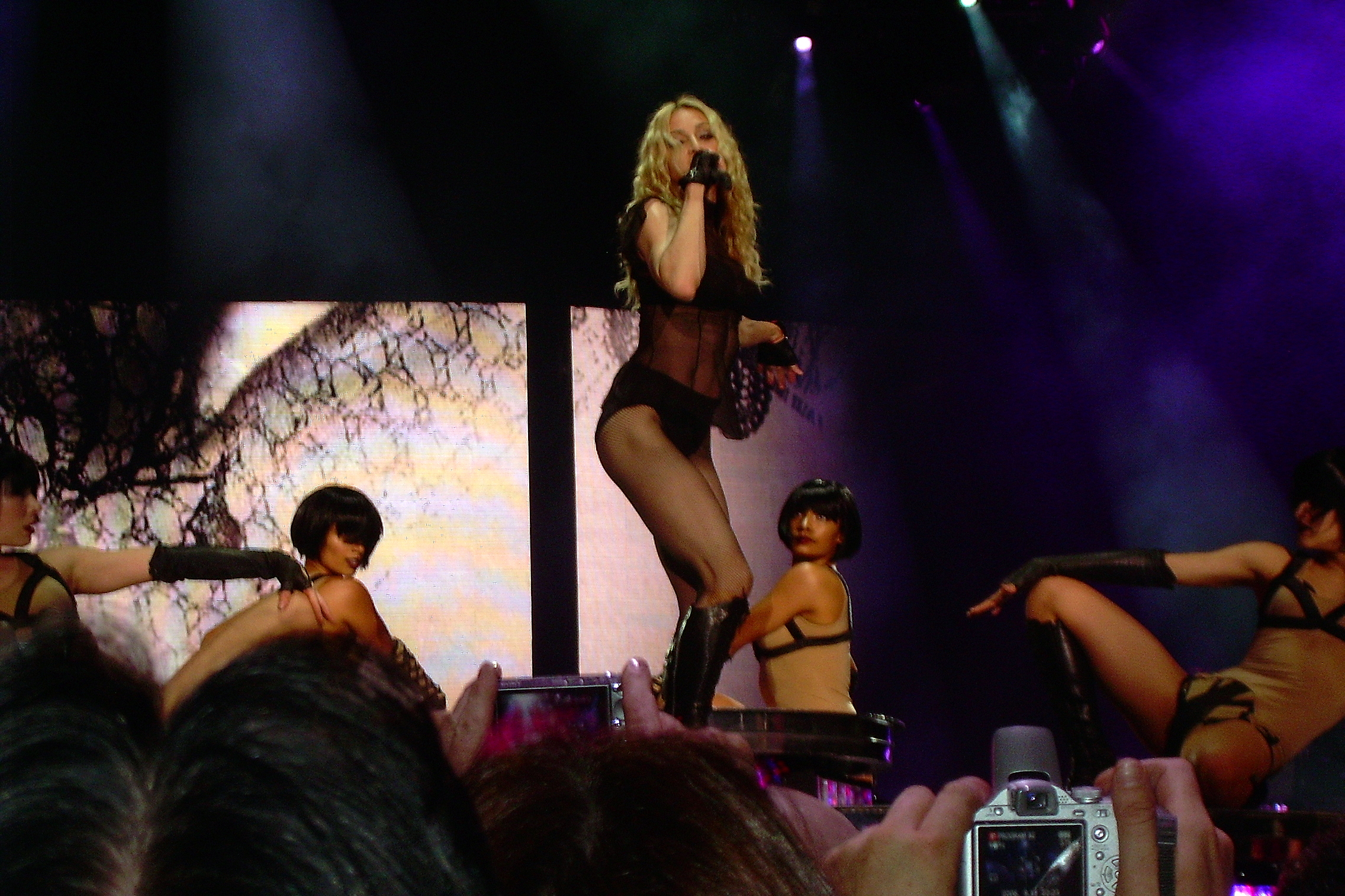 Му рicture taken in Wembley during the concert